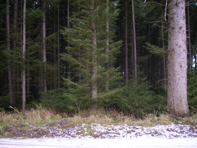 Trees at vastly differing stages of maturity in Dalby Forest